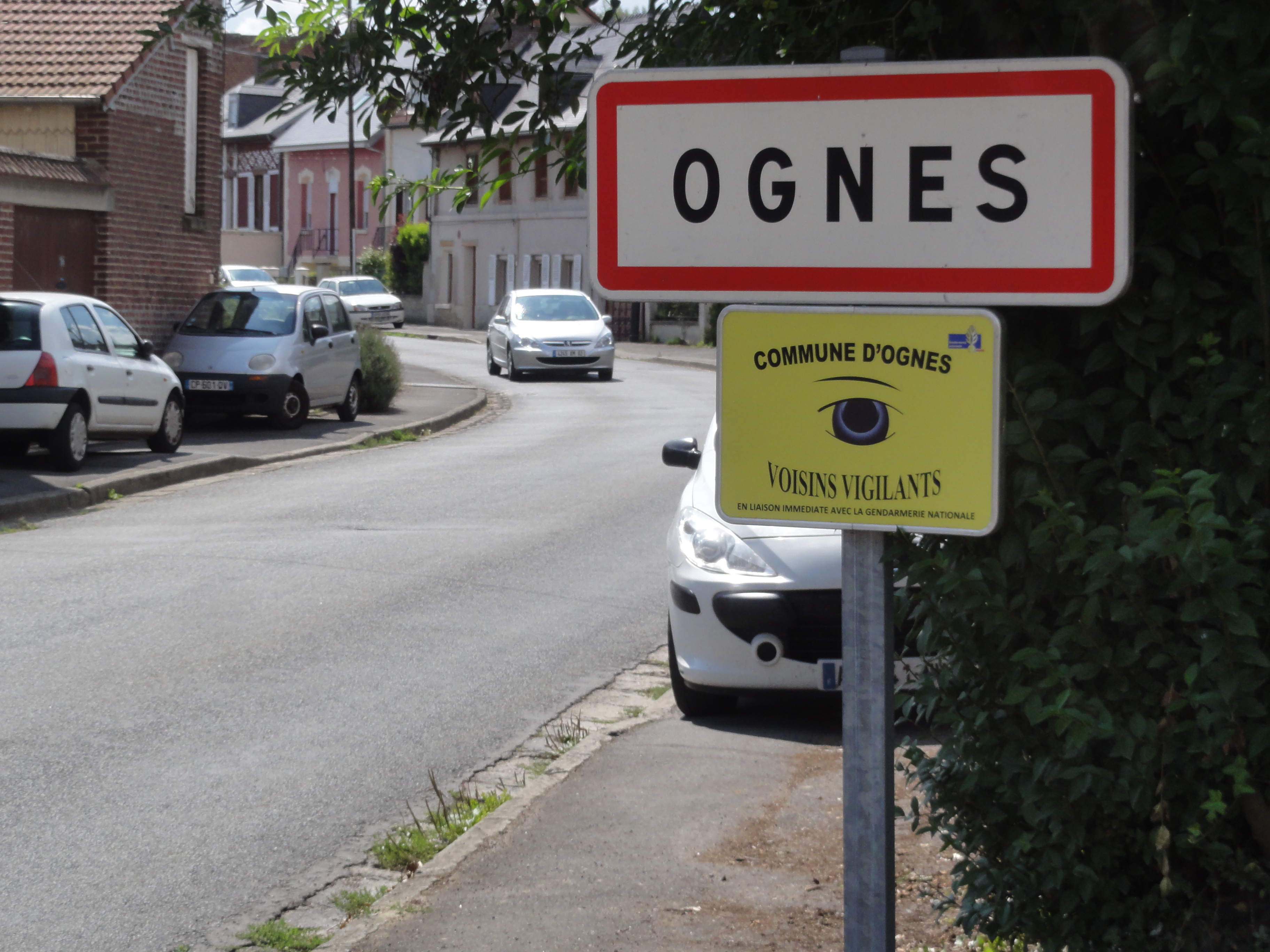 Ognes (Aisne) city limit sign